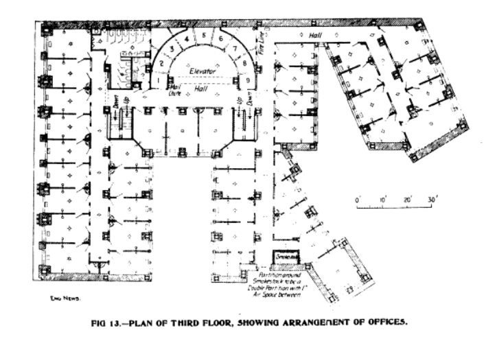 Typical floor plan (3rd floor) as originally built, Park Row Building, 15 Park Row, New York City. Opened 1899.